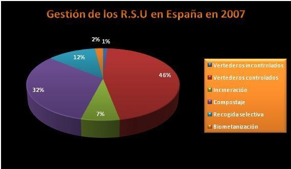 Rubbish graphic